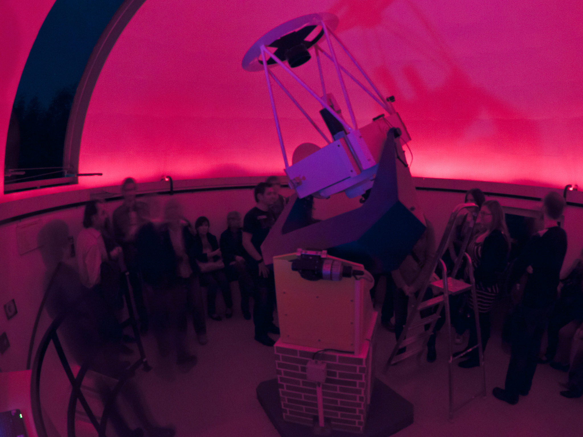 Public observing with the 50 cm f/10 Cassegrain telescope at the Johannes Kepler Observatory in Linz, Austria.